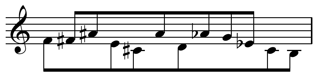 Berg's Lyric Suite Mov. VI tone row 1-P